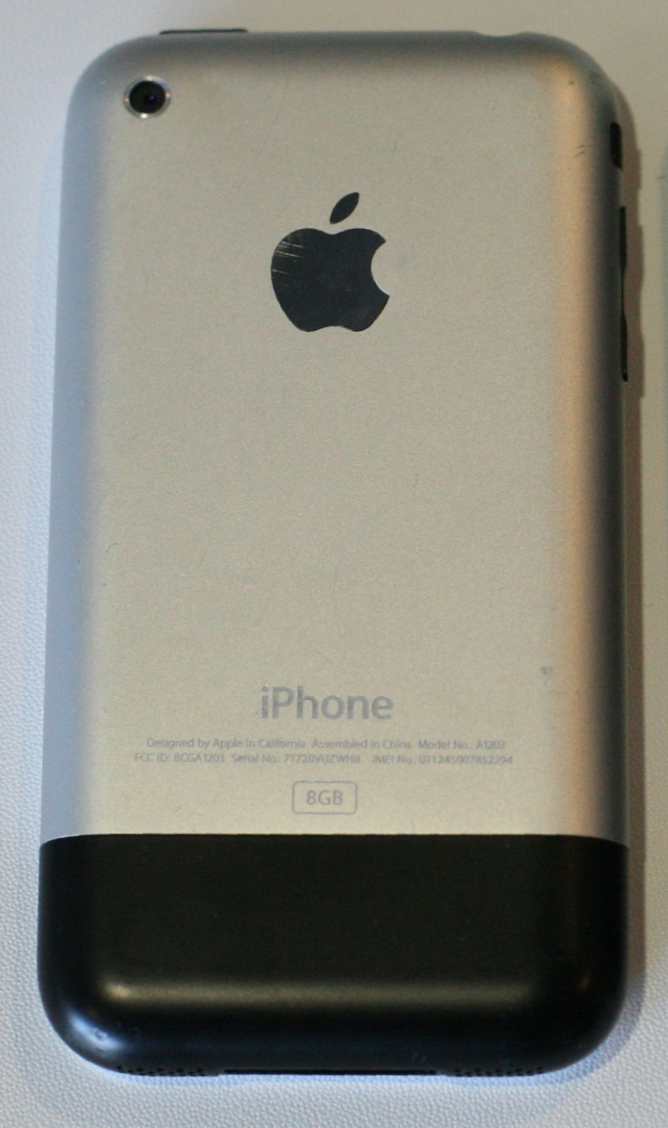 Rear of original iPhone.